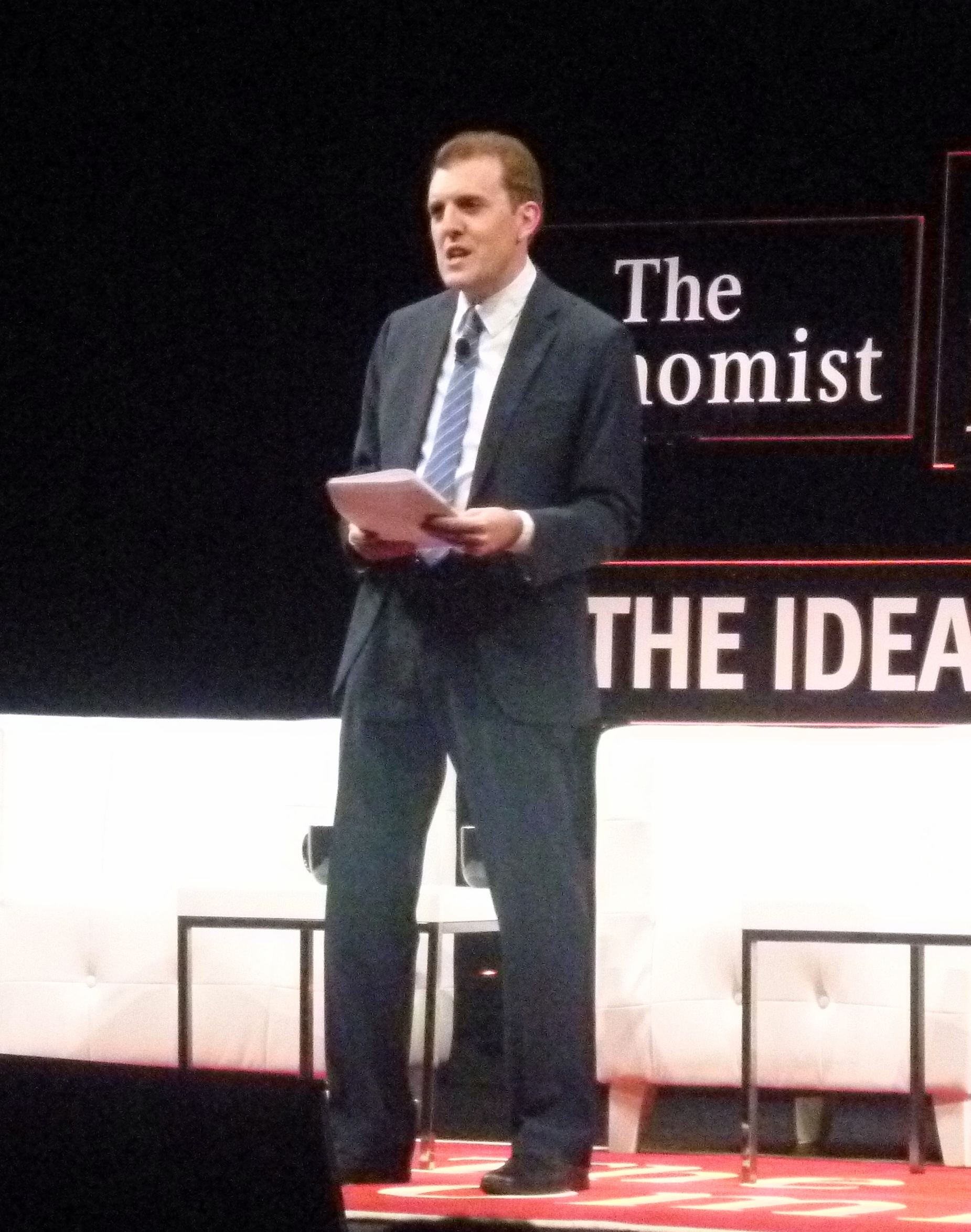 Tom Standage in San Francisco at Information 2012: Big data and the evolution of smart systems.